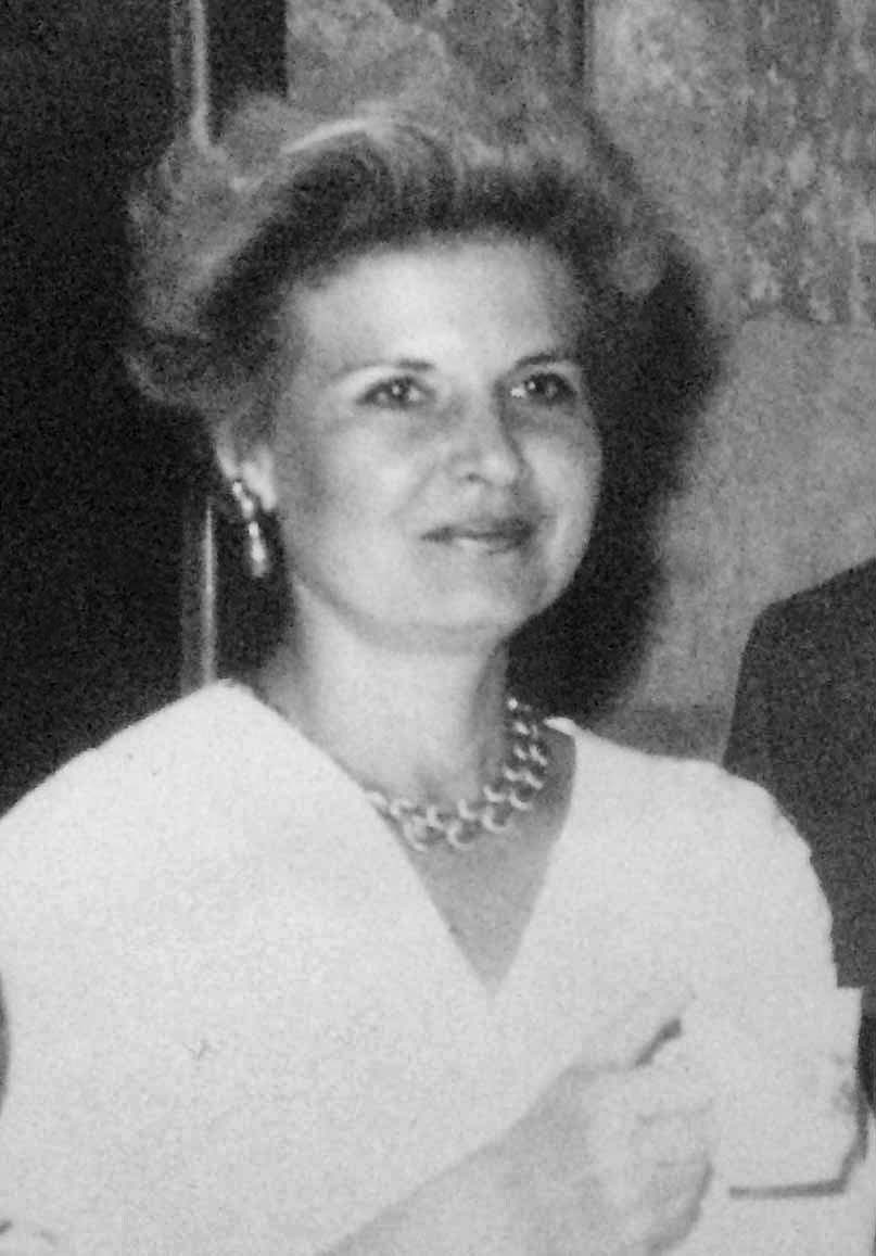 Svetlana Yu. Zaginaychenko during the International Conference "Hydrogen Materials Science and Chemistry of Carbon Nanomaterials" (ICHMS'97). September 2, 1997 in Katsiveli, Yalta, Crimea, Ukraine.